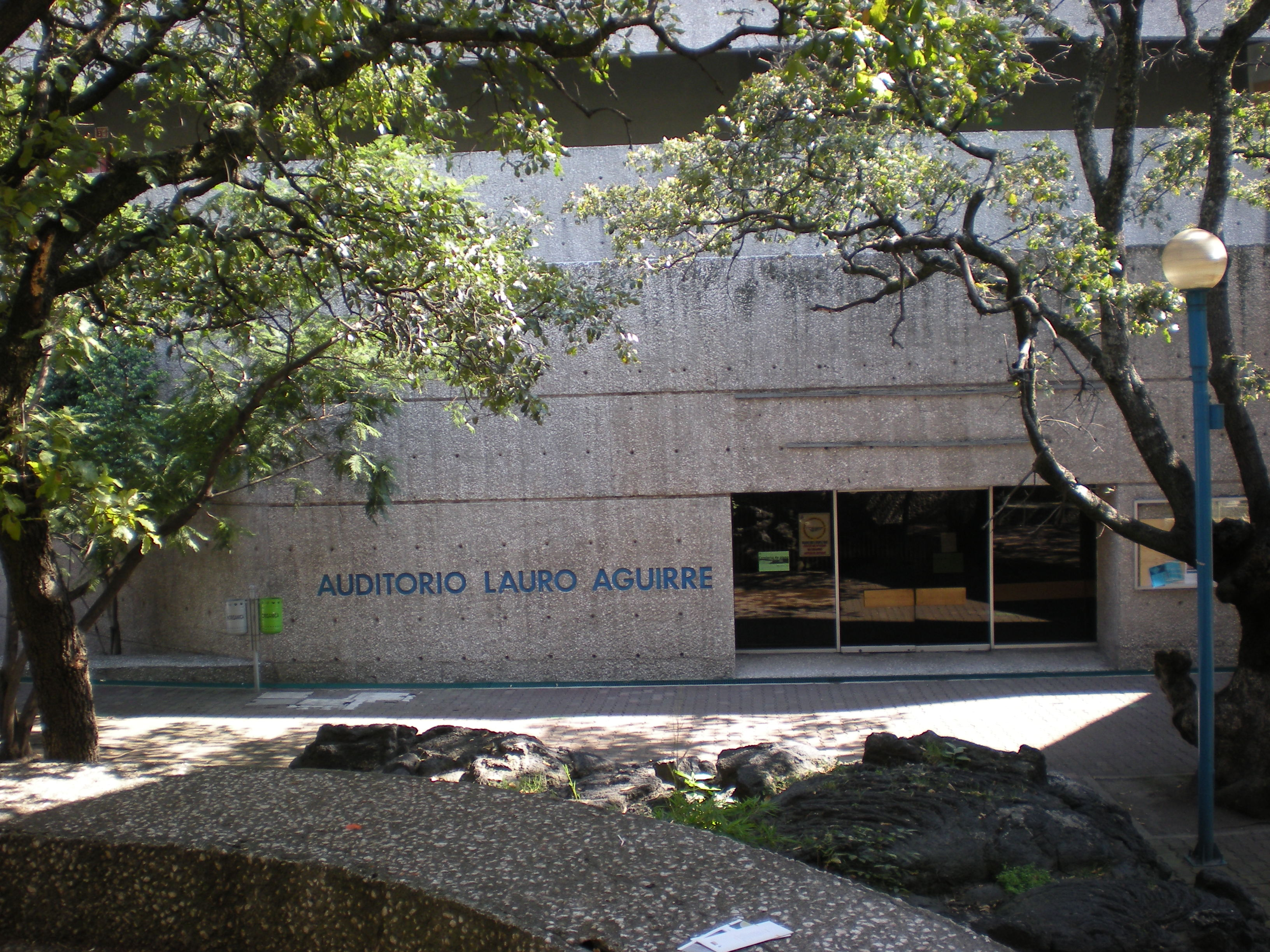 Main auditorium, UPN México